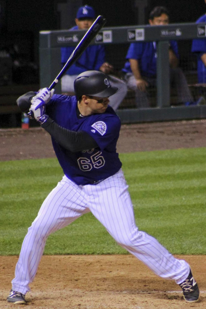 Stephen Cardullo